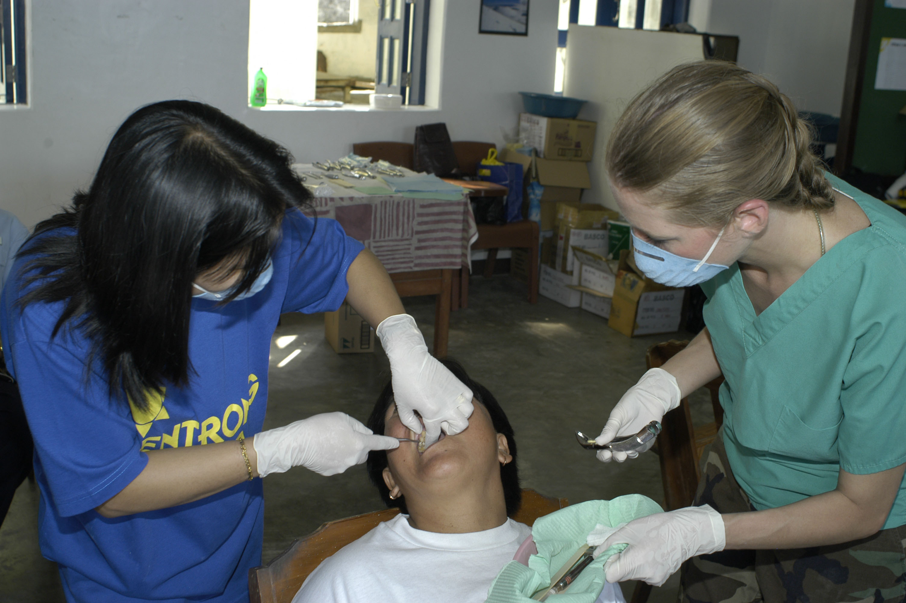 Ivana, Republic of the Philippines (RP) Mar. 3, 2004 – Filipino dentist Irma Villeta, left, and Naval Reserve Dental Technician 1st Class Aimee Arnold, treat local patients during the medical assistance phase of Exercise Balikatan 2004. U.S. Navy photo by Journalist 1st Class Mark H. Overstreet. (RELEASED)